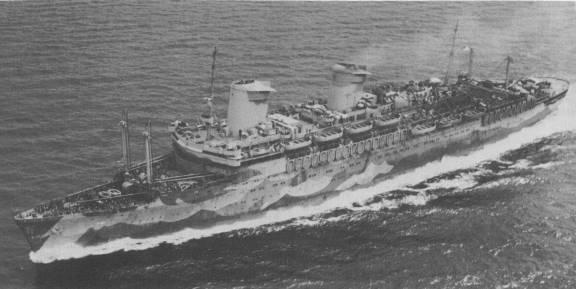 The U.S. Navy troop transport USS West Point (AP-23) underway at sea, circa in 1943.